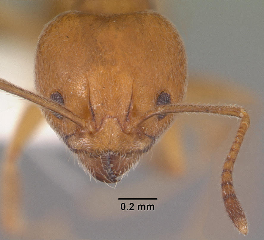 Head view of ant Aneuretus simoni specimen casent0102369.